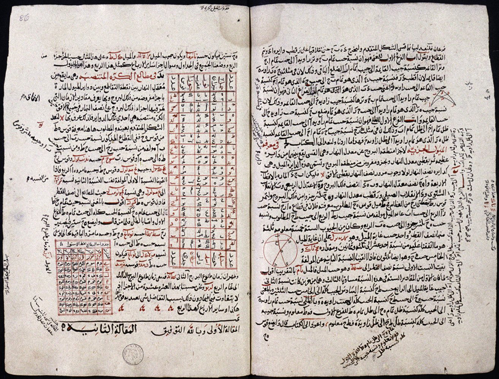 Pages from the Almagest by Ptolemy. Arabic text with astronomical tables. Shelfmark: MS. Pococke 369